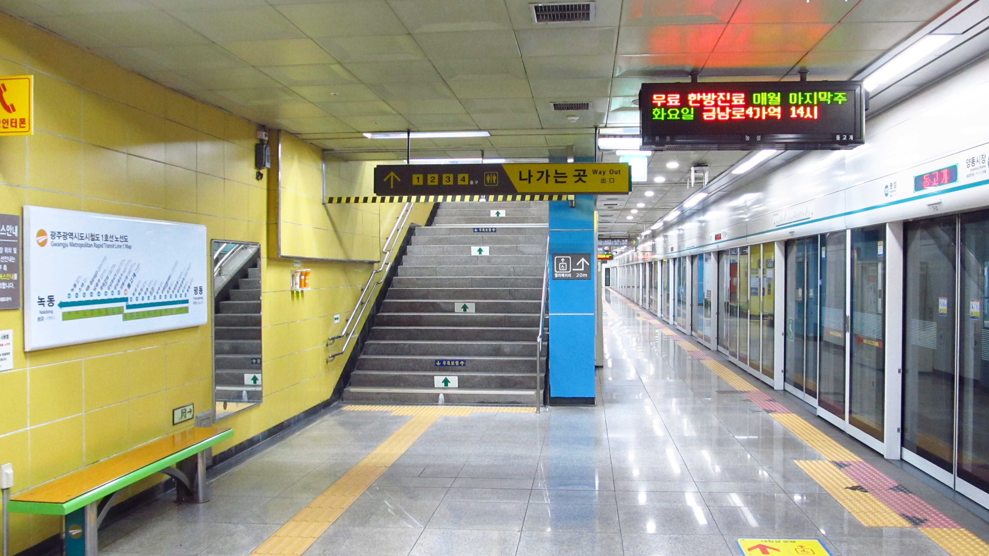 The platform at Dolgogae Station on Gwangju Metro Line 1 in Seo-gu, Gwangju, Republic of Korea(South Korea)